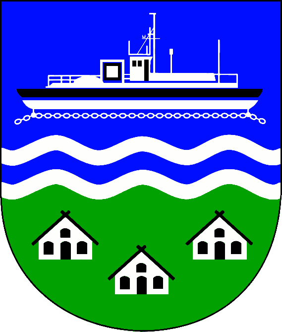 Coat of arms of the municipality Oldenbüttel in Schleswig-Holstein, Germany.